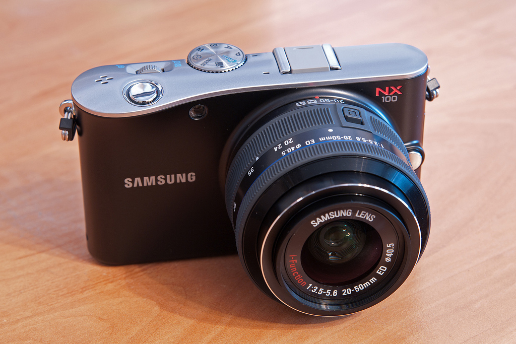 Samsung NX100 digital camera with Samsung i-Function 20-50mm f/3.5-5.6 ED lens